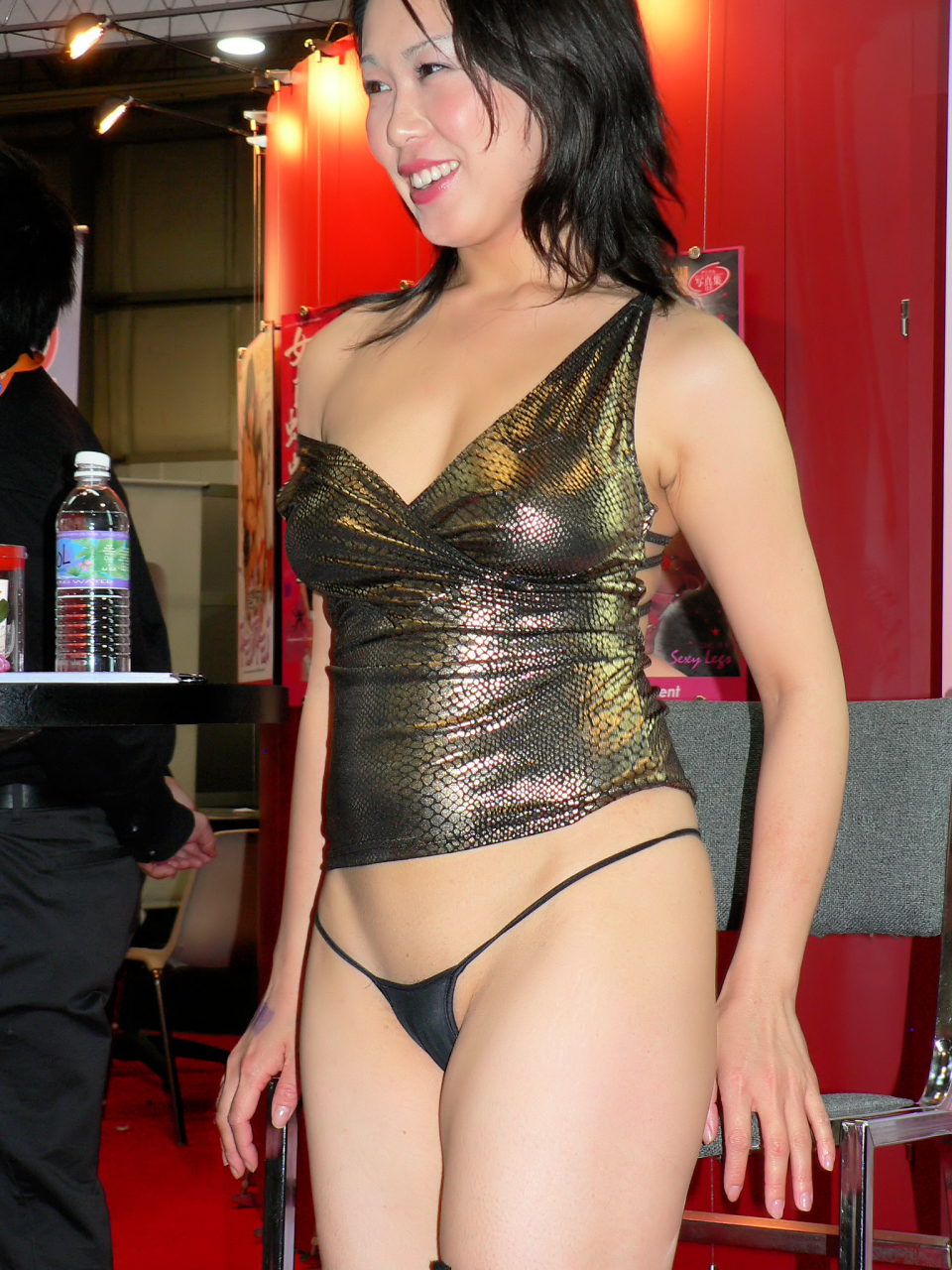 Fujiko Sakura Birthdate: July 13, 1981 Chiba Japan Height: 5 ft 3 in